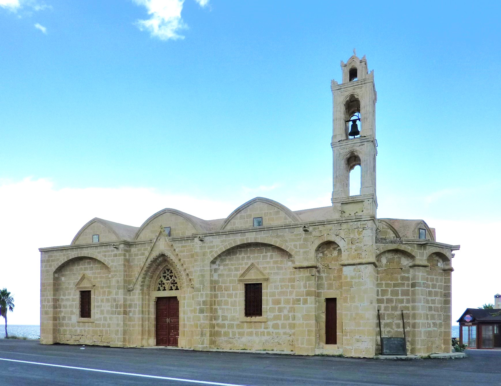 Ayios Thrysos, Karpaz (Agios Therisos); Northern Cyprus